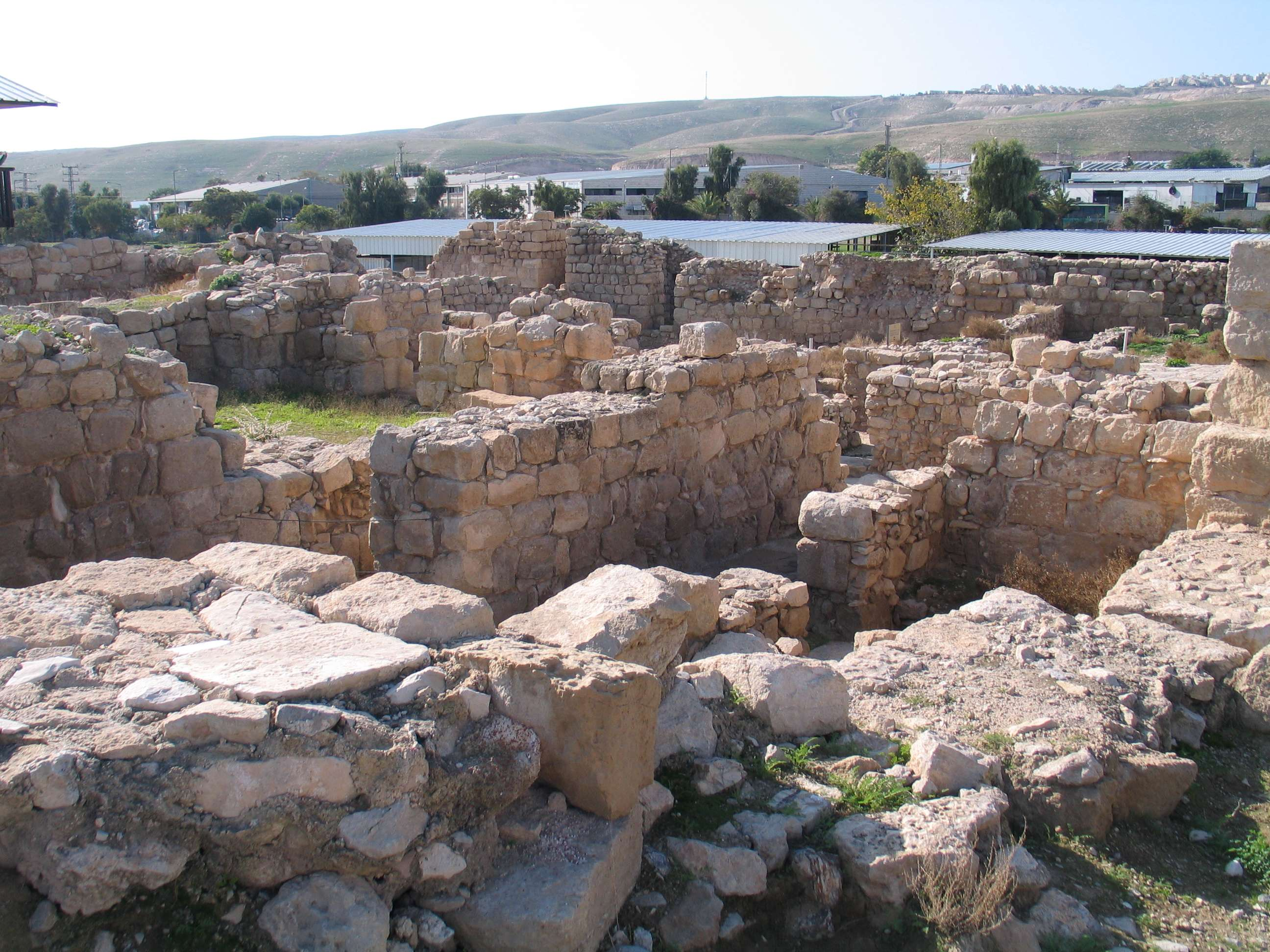 St Euthymius Monastery, Maale Adumim.